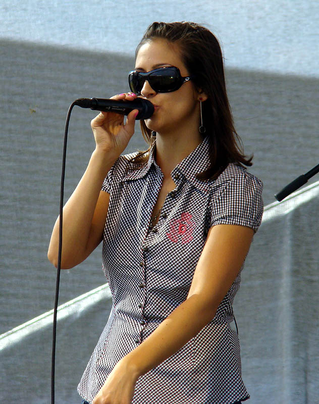 Zdenka Predna - Slovak singer